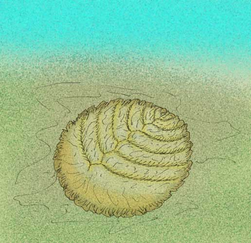 Reconstruction of the proarticulatan, Karakhtia nessovi, from the Precambrian of what is now the shores of the White Sea. It is related to Vendia, and Paravendia.